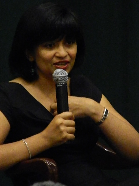 Nalini Singh at book signing June 6, 2013. Barnes & Noble Tribeca.